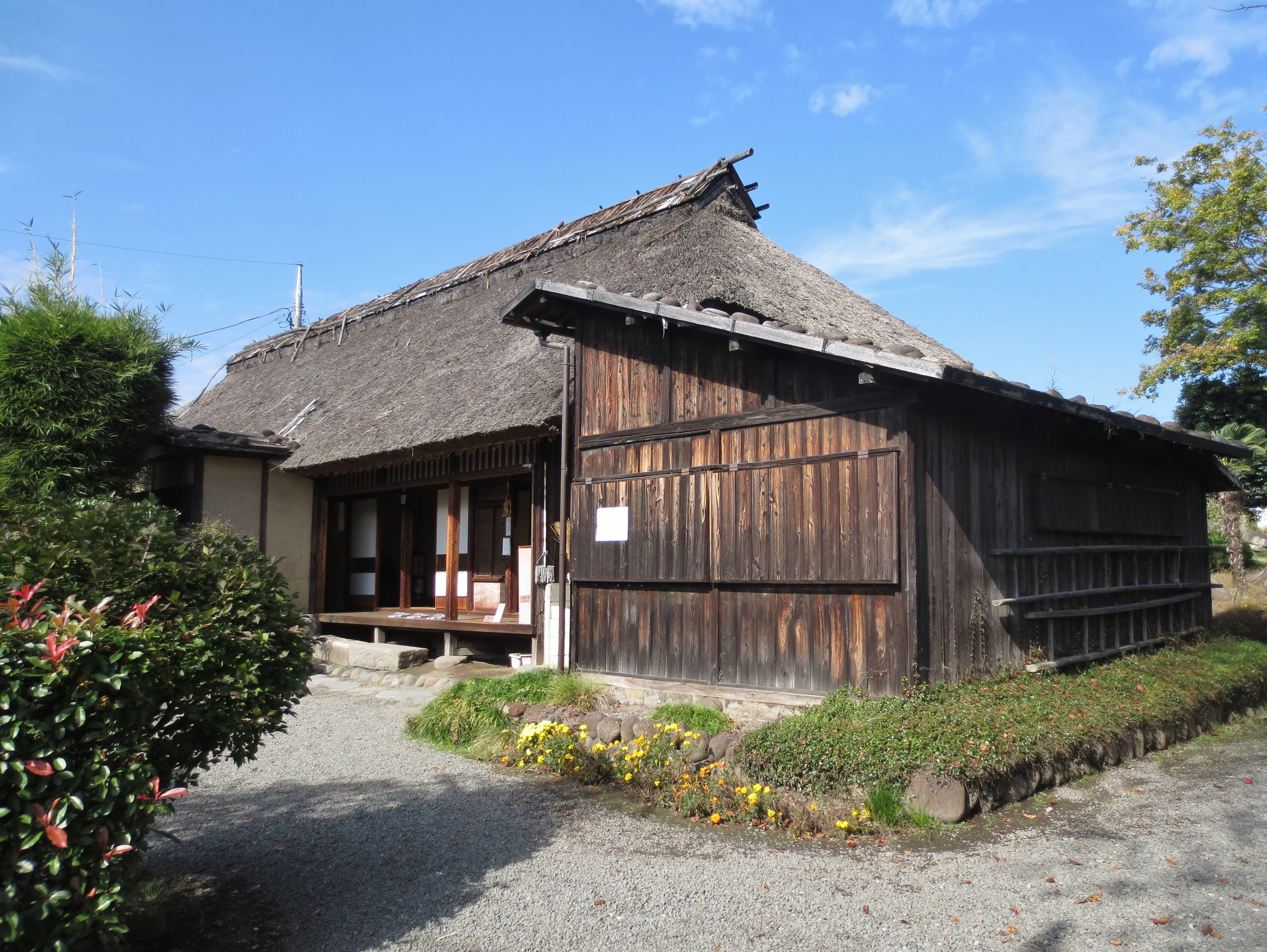 Neesima's Residence (Annaka, Gunma).